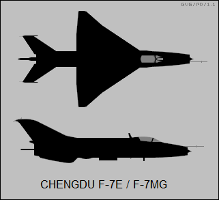 Chengdu J-7E